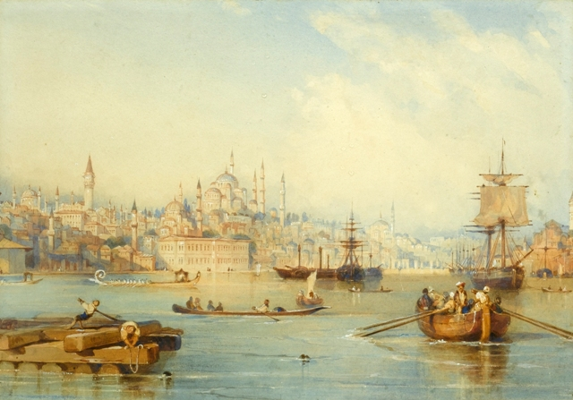 Allom - Constantinople, watercolour heightened by bodycolour.